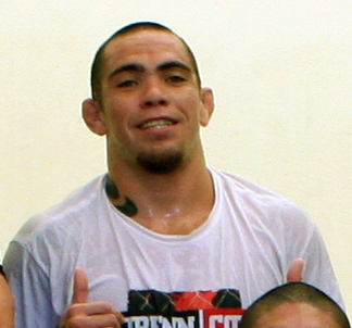 Rafaello T. Oliveira, a Strikeforce fighter, poses at the racquet ball court, at the Miramar Sports Complex, July 30. He trained with and gave pointers to the club before heading to the exchange on base to sign autographs. (the extract from an original text)